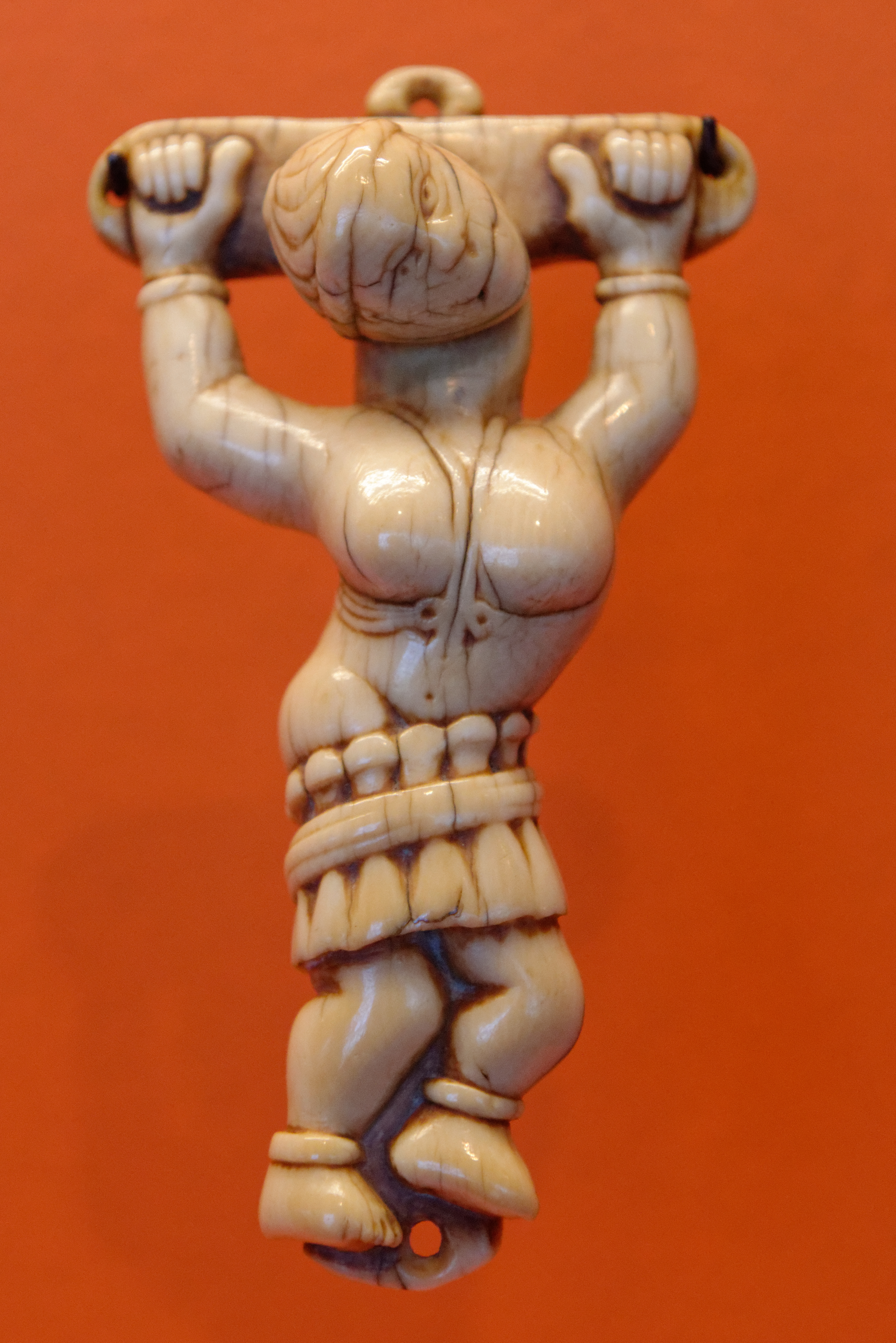 Pendant with a feminine Christ, Kongo culture, from the area of São Salvador (?). May be linked to the Antonian movement, as a representation of the martyrdom of Beatriz Kimpa Vita.